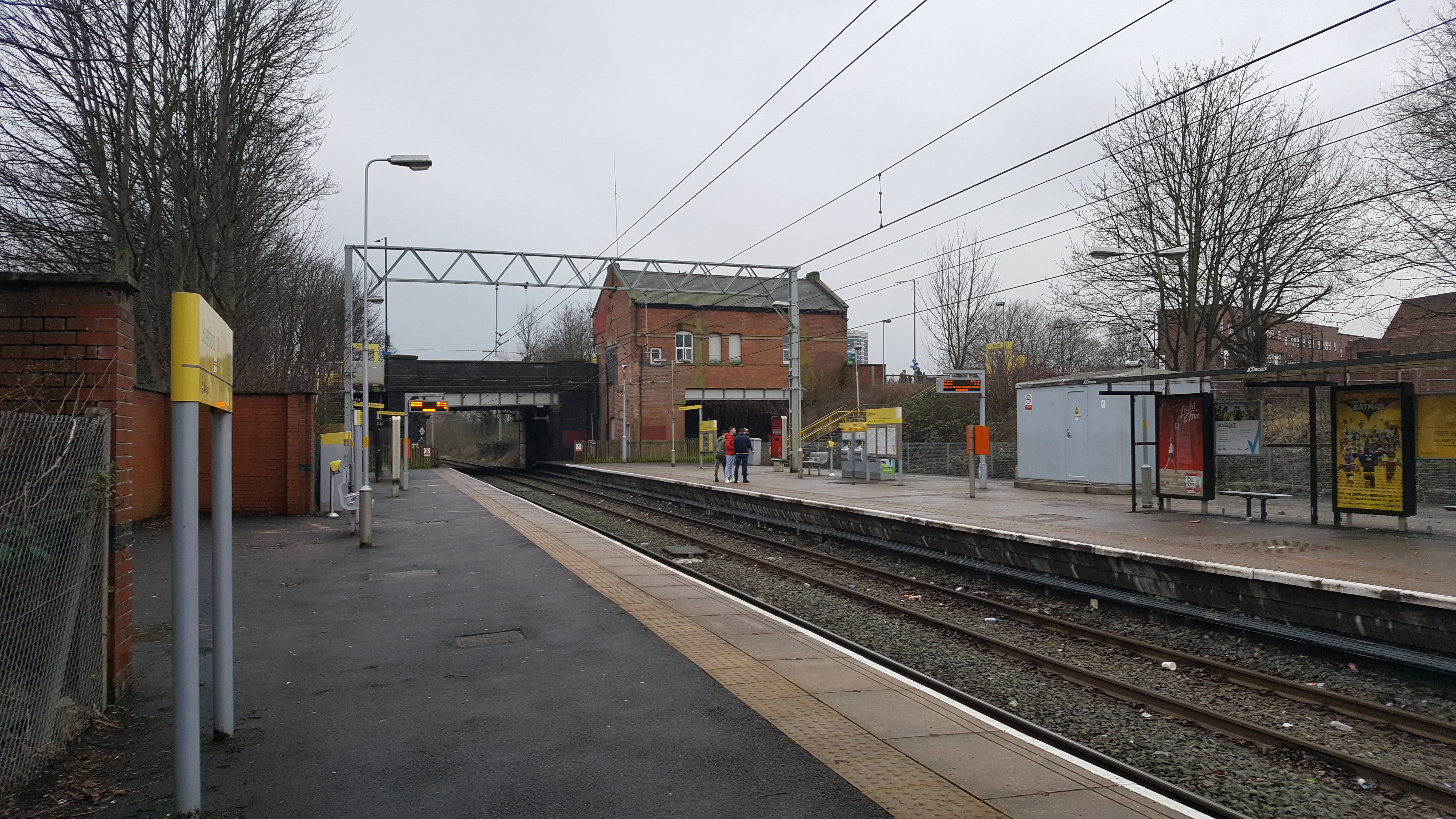 A image of Stretford tram stop.